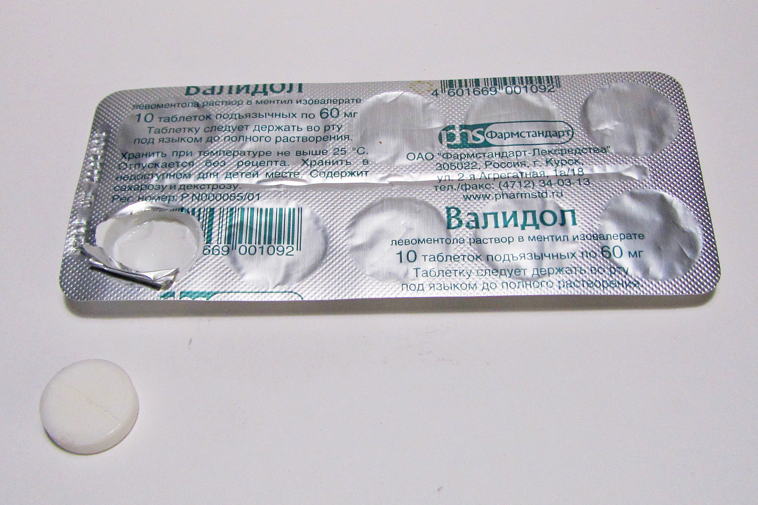 Menthyl isovalerate, also known as validolum, is the menthyl ester of isovaleric acid. It is a transparent oily, colorless liquid with a smell of menthol. It is very slightly soluble in ethanol, while practically insoluble in water. It is used as a food additive for flavor and fragrance.